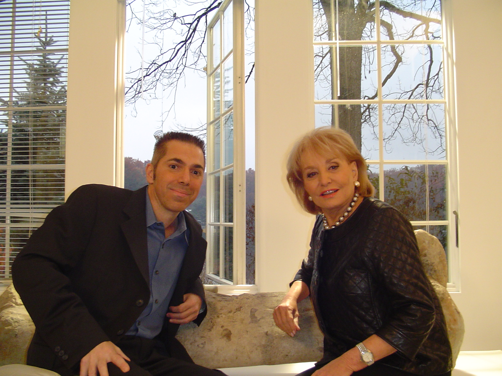 Robert Lanza and Barbara Walters at Lanza's house